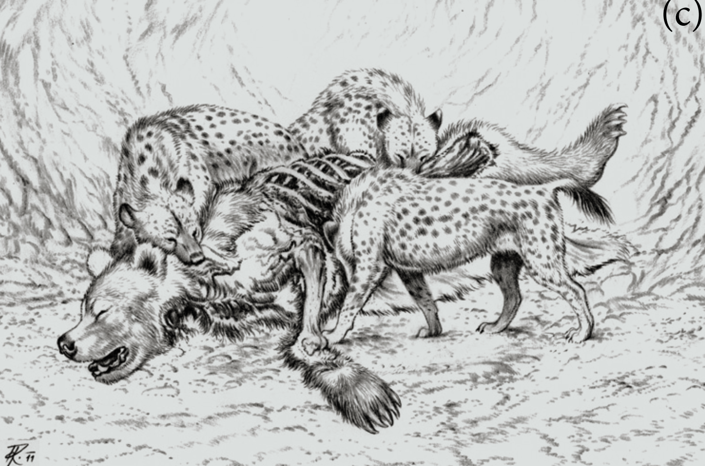 Artistic depiction of cave hyenas feeding on cave bear in Zoolithen Cave